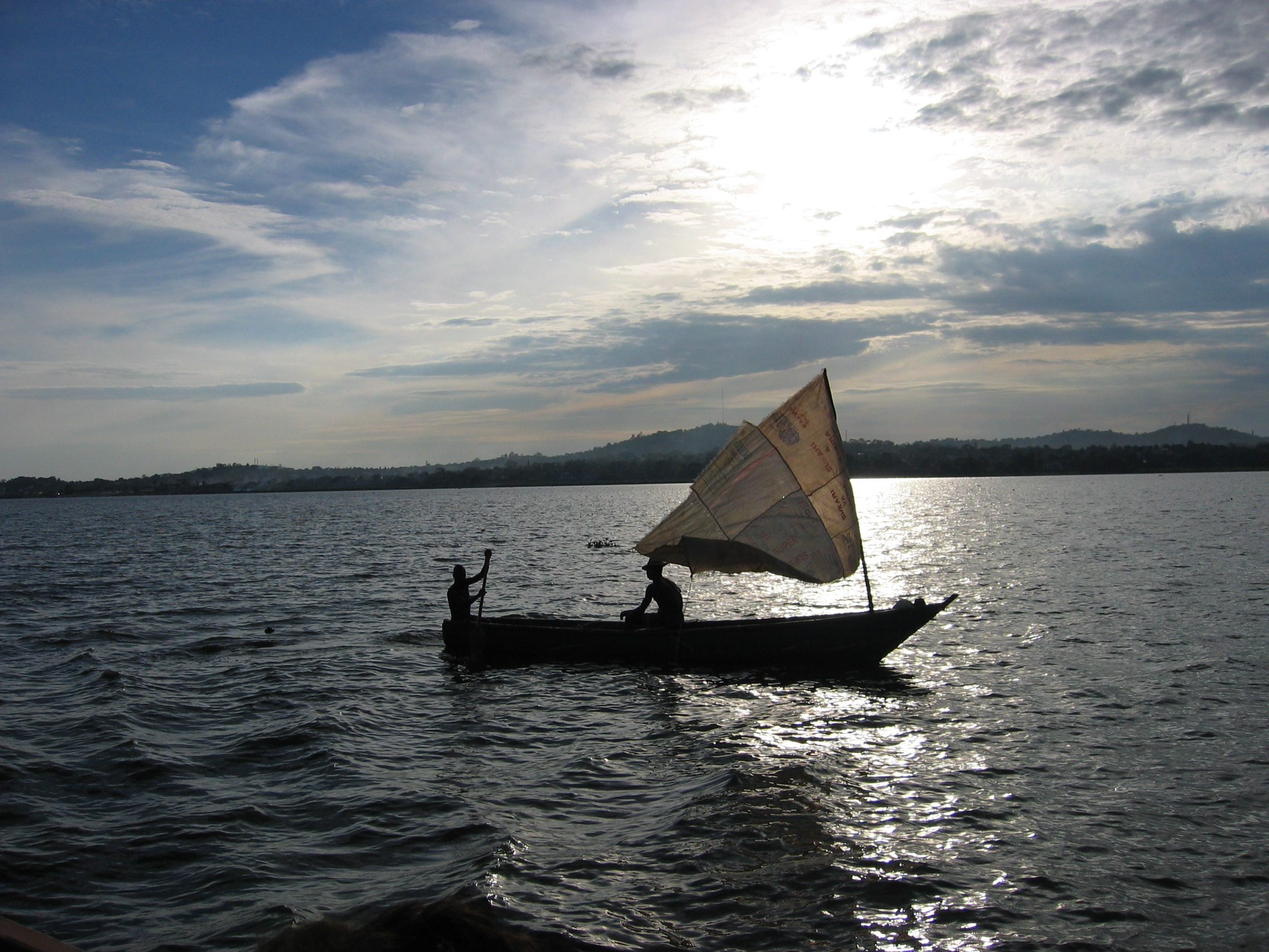 Sail on the Victoria lake Uganda